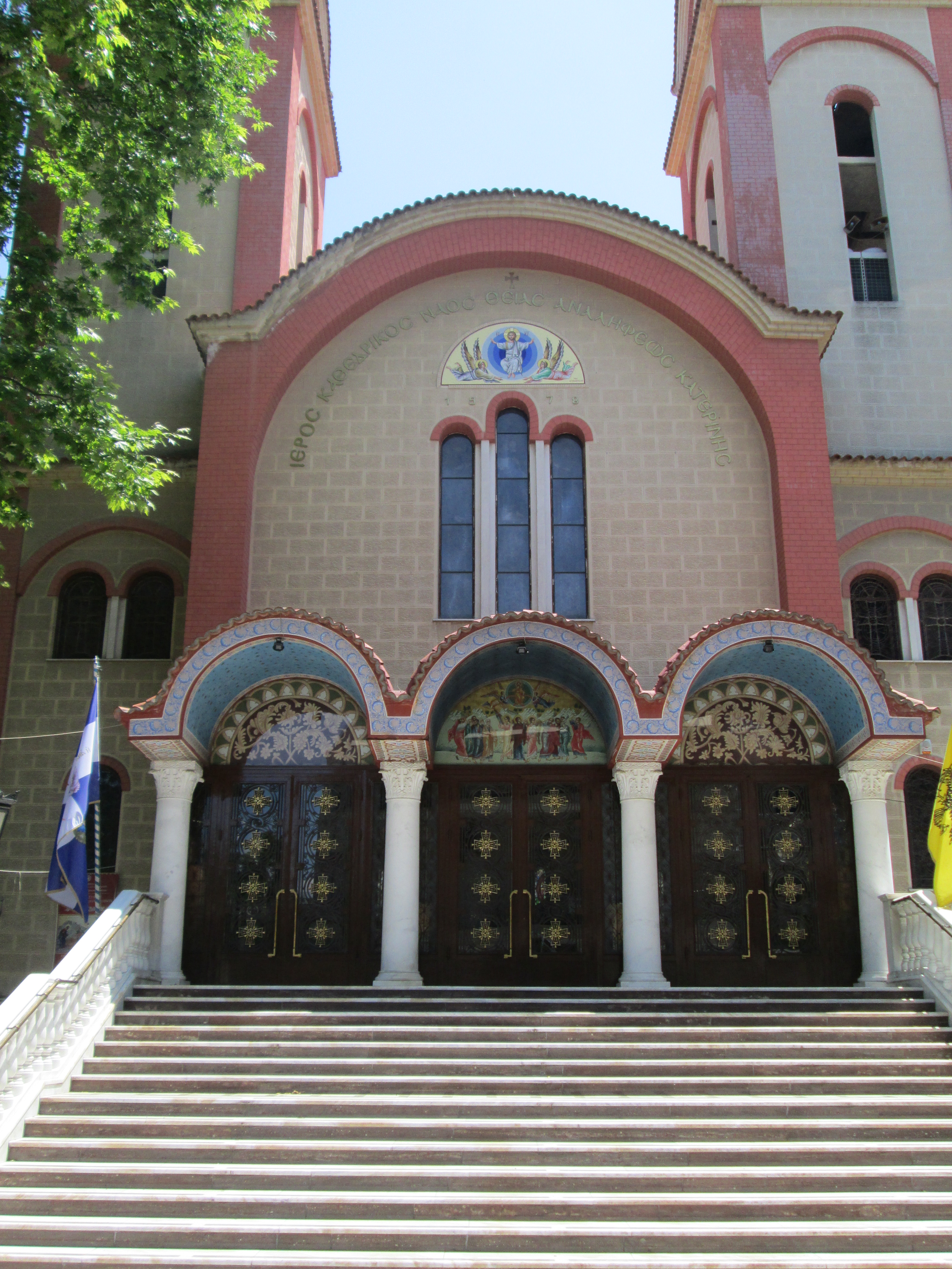 Paralia 601 00, Greece